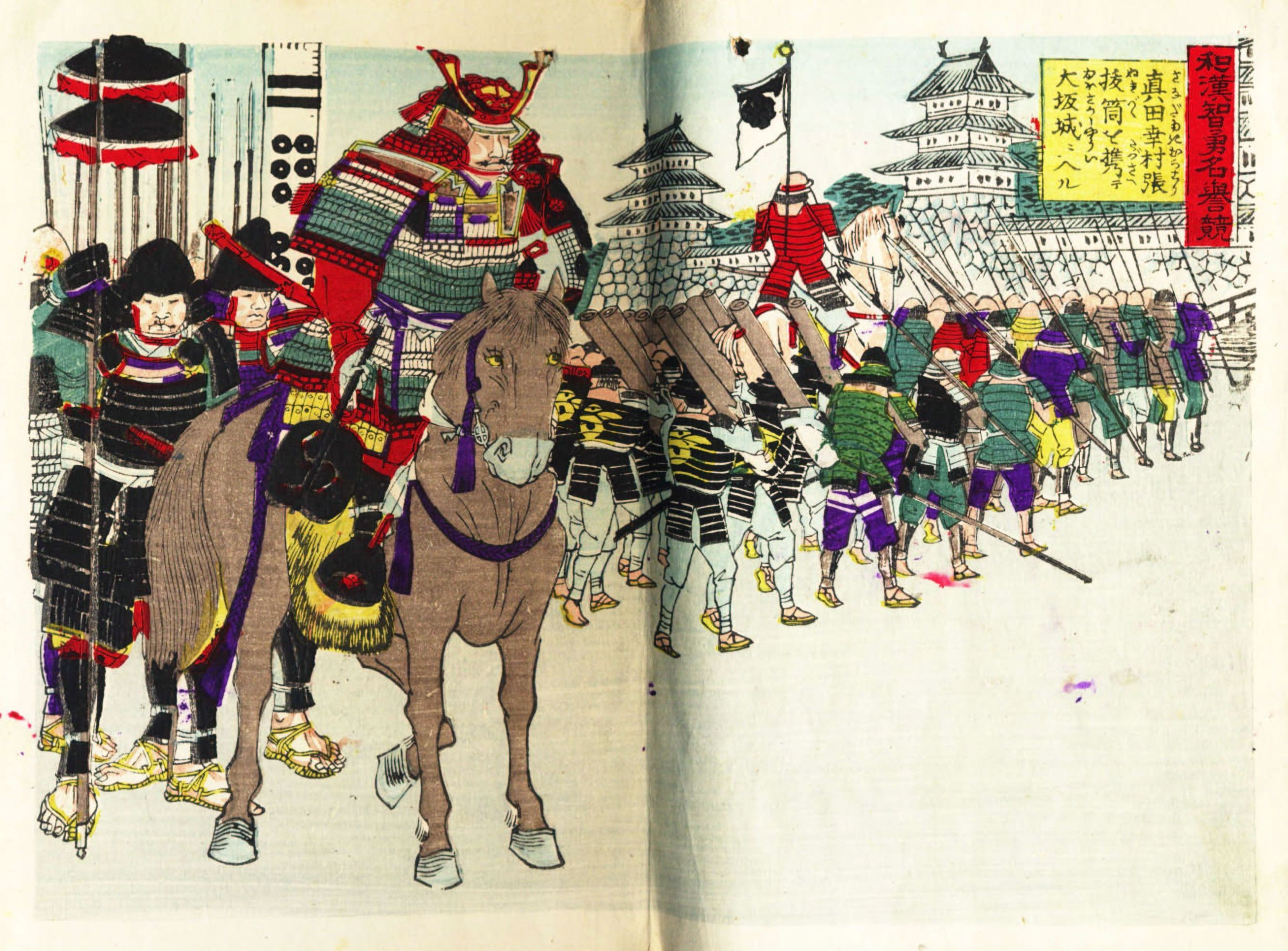 Sanada Yukimura with his troups at the Siege of Osaka